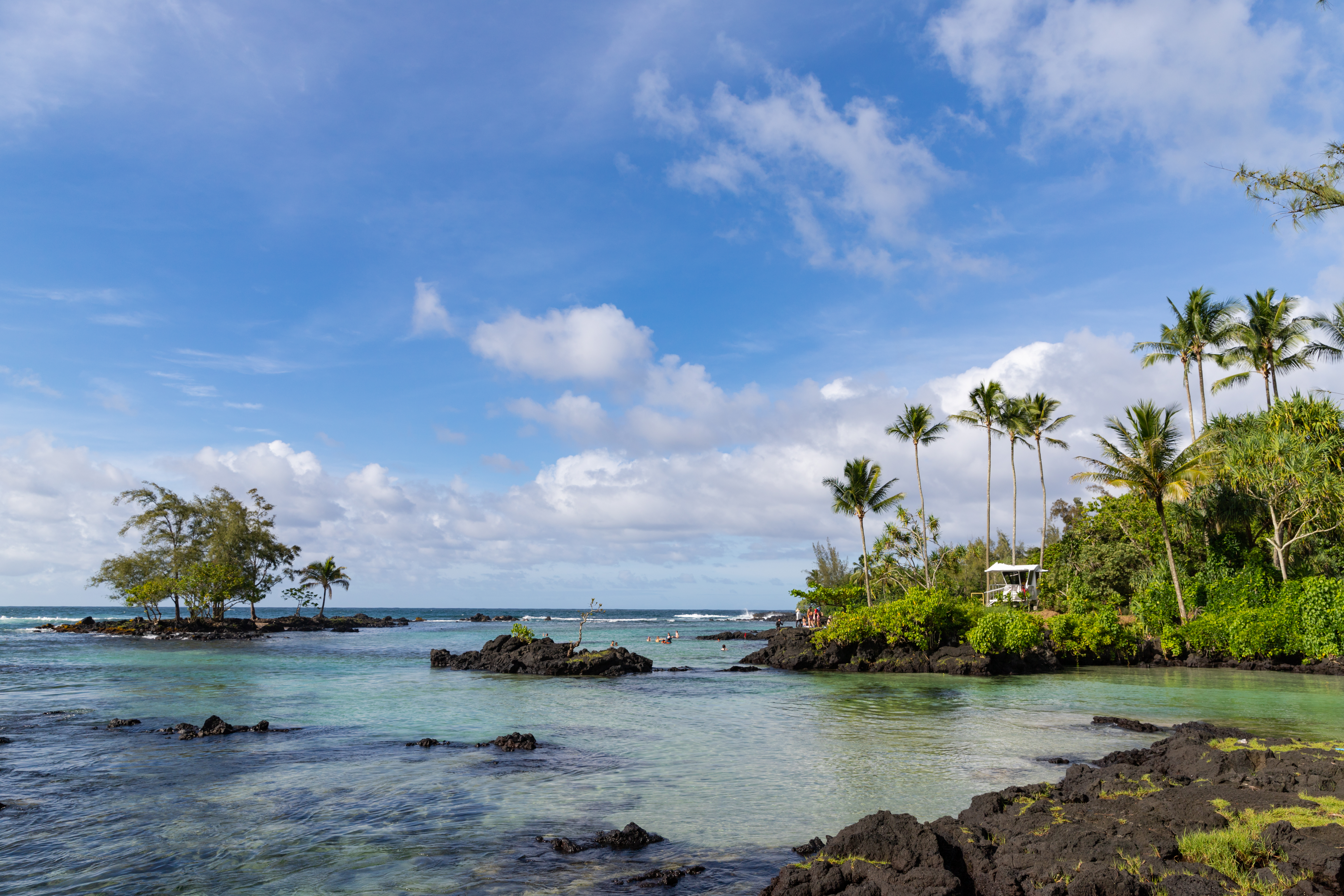 Carlsmith Beach Hilo Big island, Hawaii